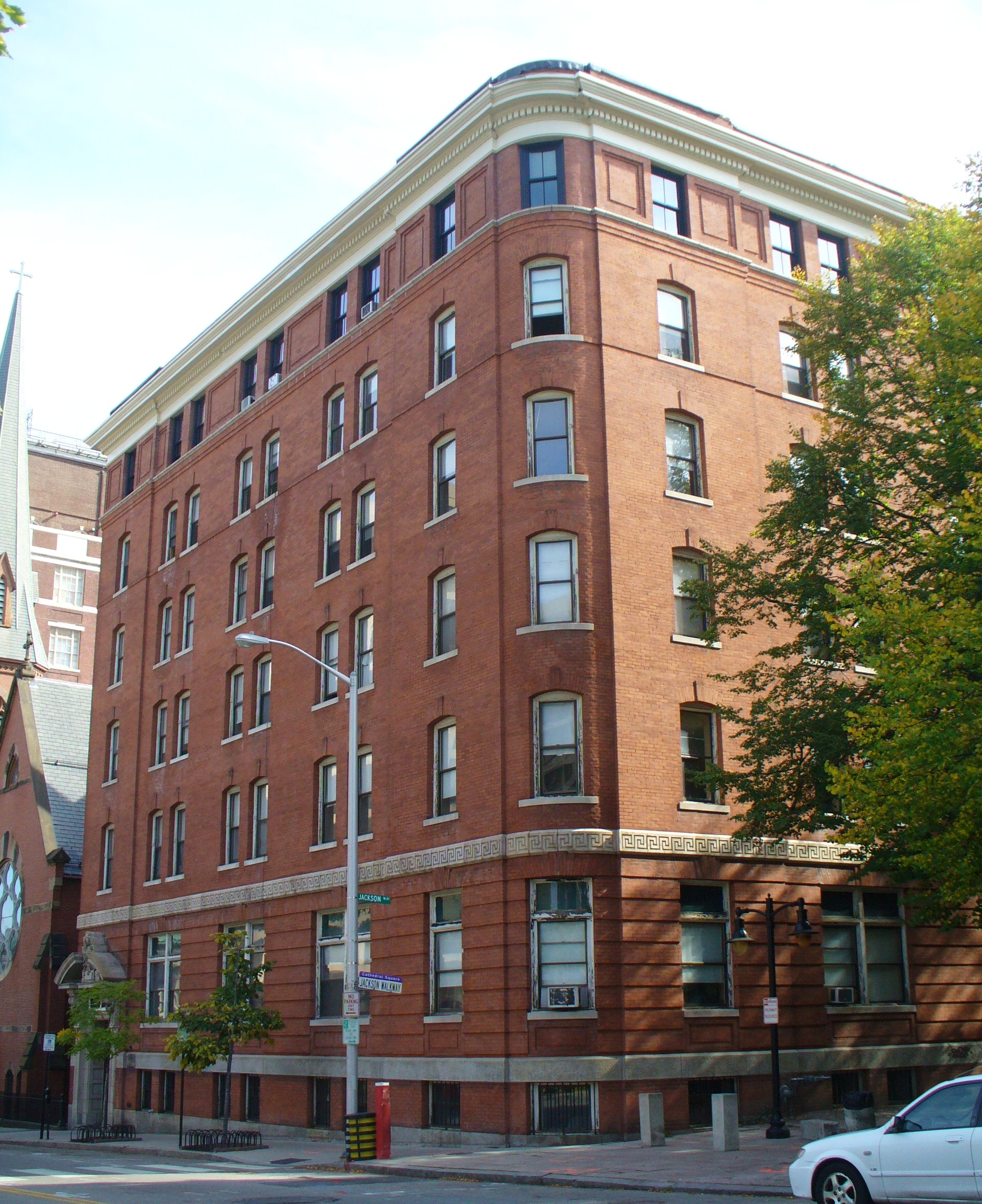 The former Y. W. C. A. on Washington Street. Designed by Hoppin & Ely in 1905. Now used as housing.